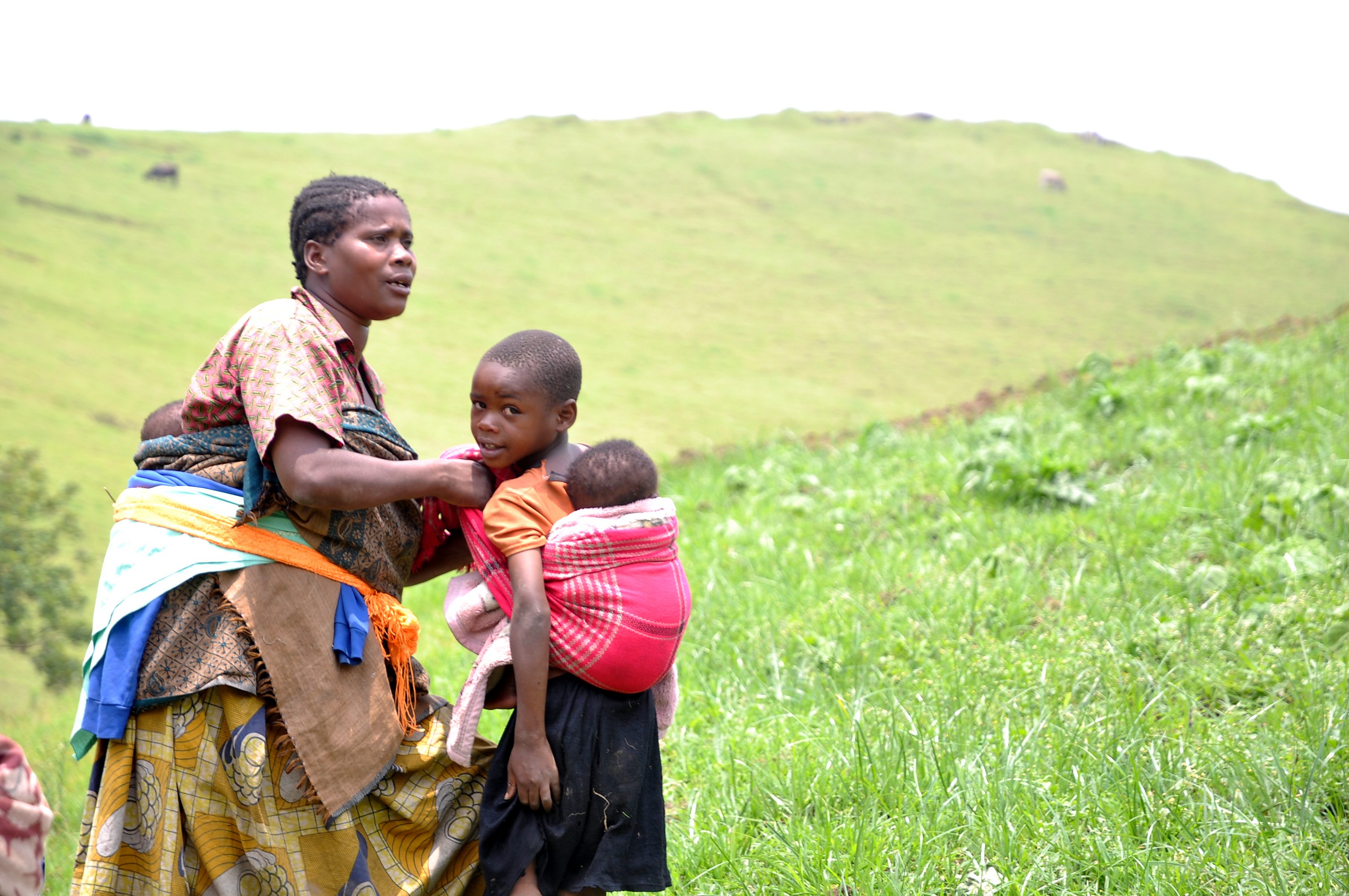 War displaced woman taking care of her three children during a field work on the hills of Lushebere in Masisi territory in North Kivu / DRC. Septembre 2015. This is an image of "African people at work" from Democratic Republic of the Congo